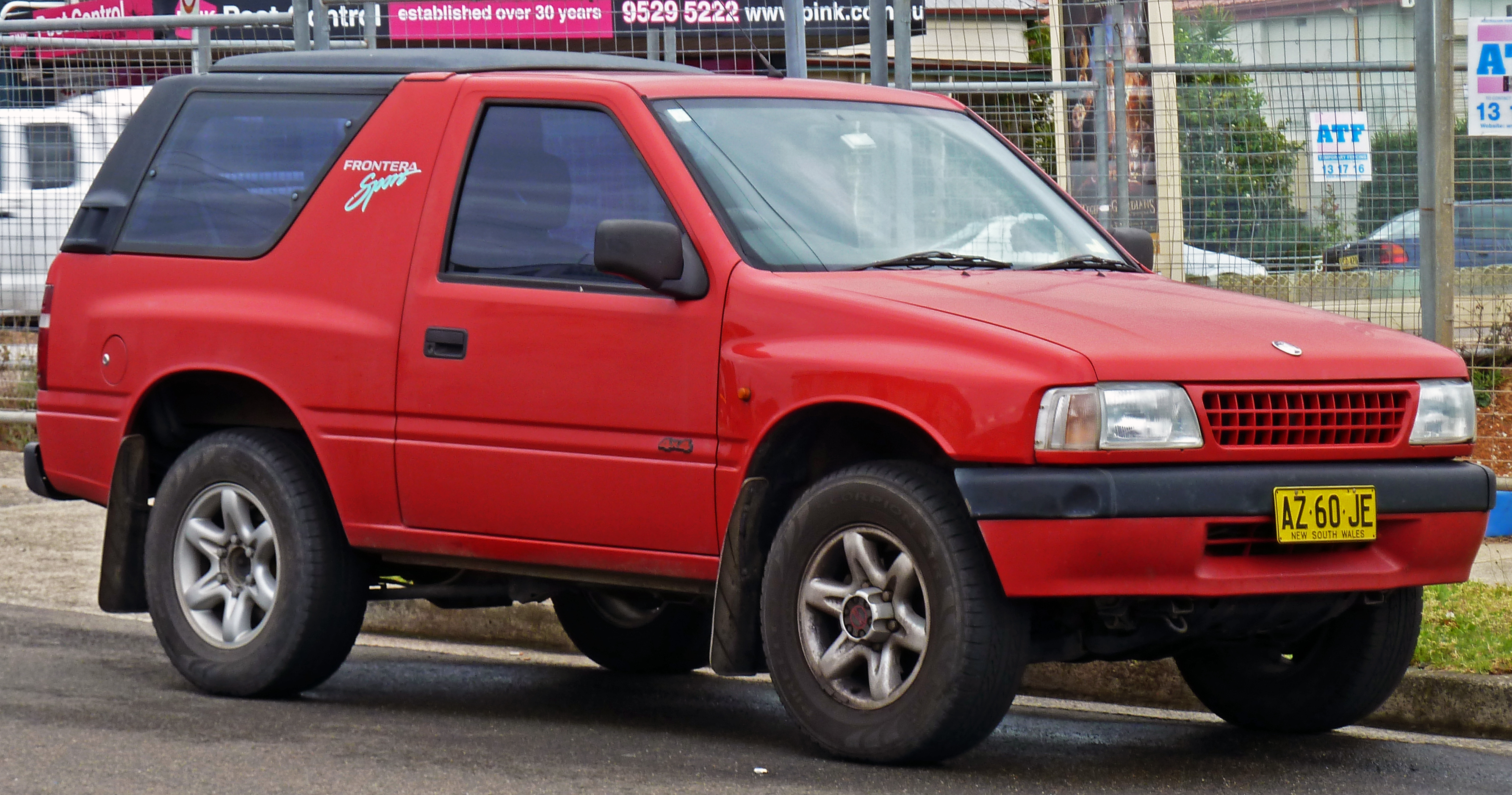 1998 Holden Frontera (UT) Sport hardtop. Photographed in Sans Souci, New South Wales, Australia.